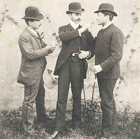 F.l.t.r.: Arthur Schnitzler (1862–1931), Richard Tausenau (1861–1893) and Louis Philipp Friedmann (1861–1939) on a hike.